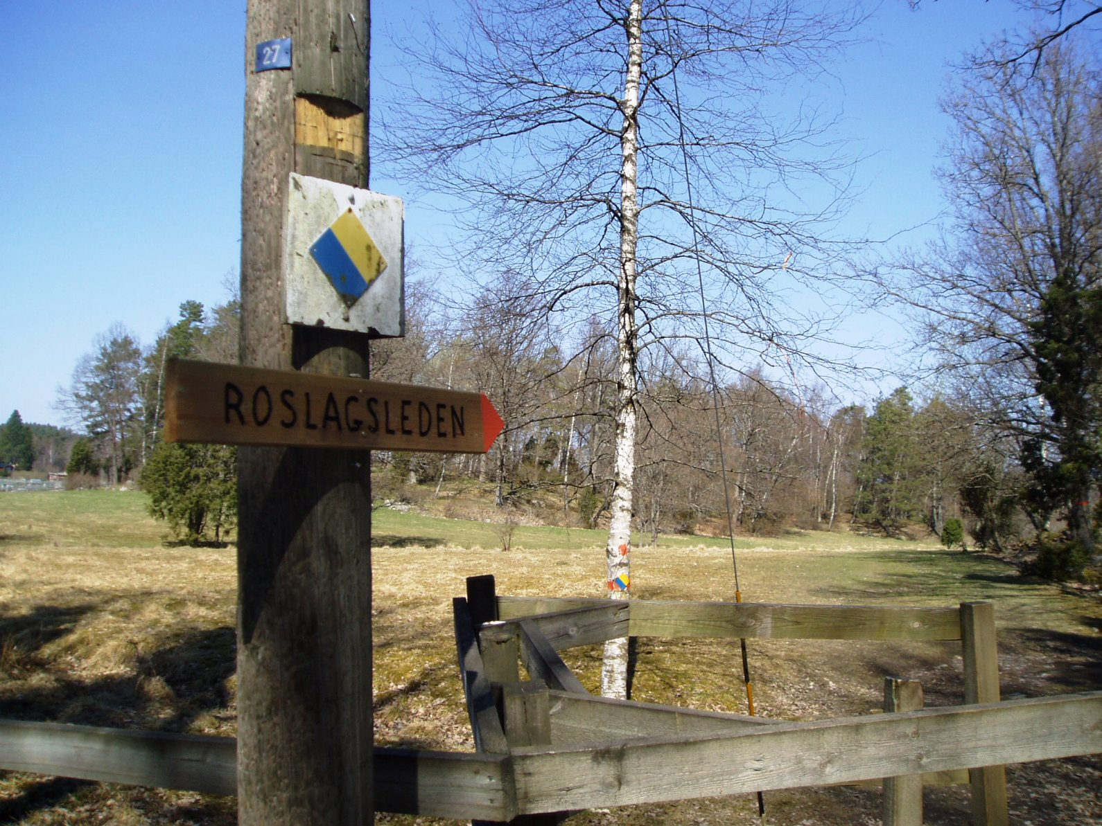 Roslagsleden, trail in Uppland, Sweden